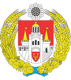 Coat of arms of Pereiaslav-Khmelnytskyi Raion, Kiev Oblast Ukraine.